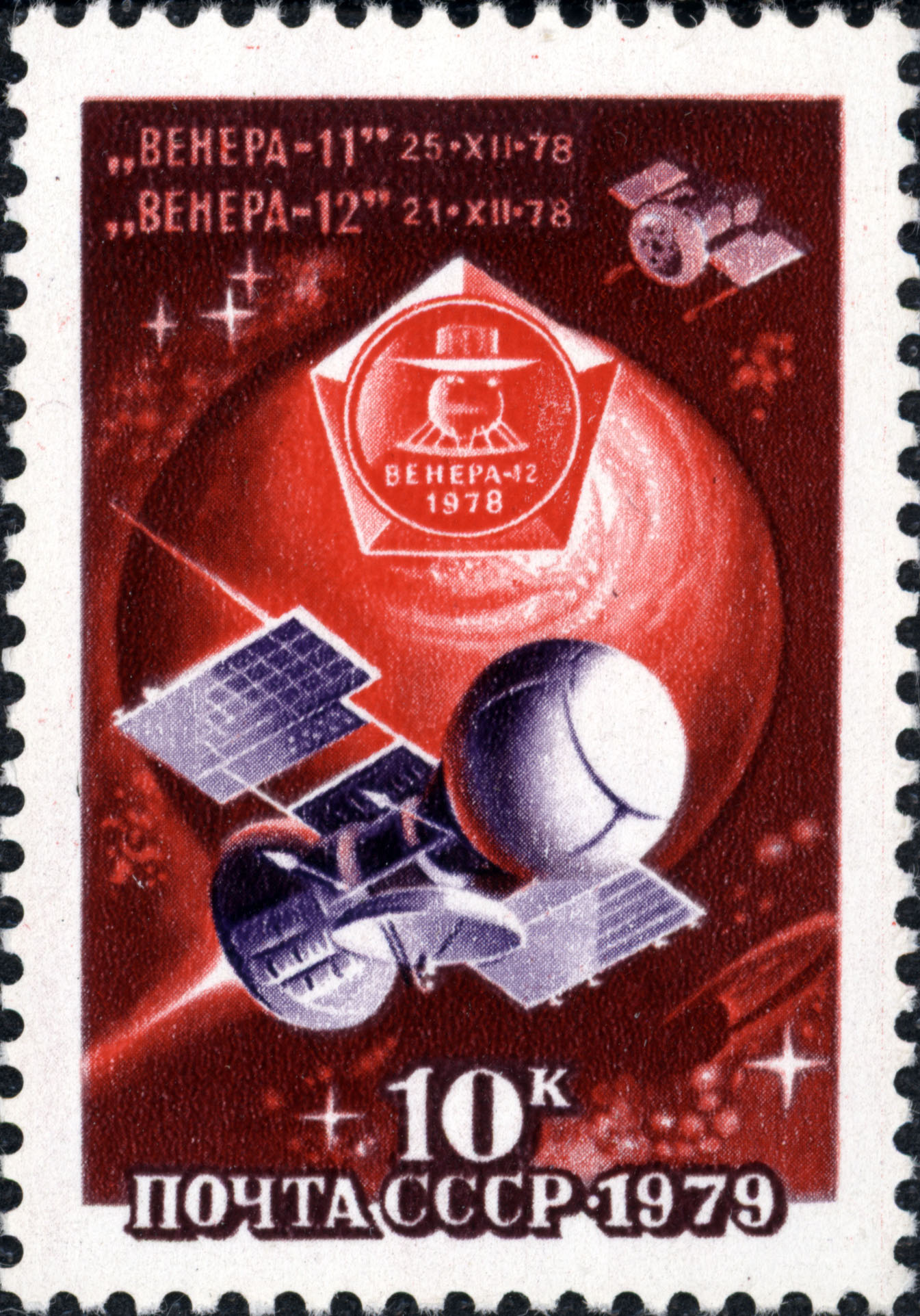 USSR stamp dedicated to Venera-11 and Venera-12 space exploration mission